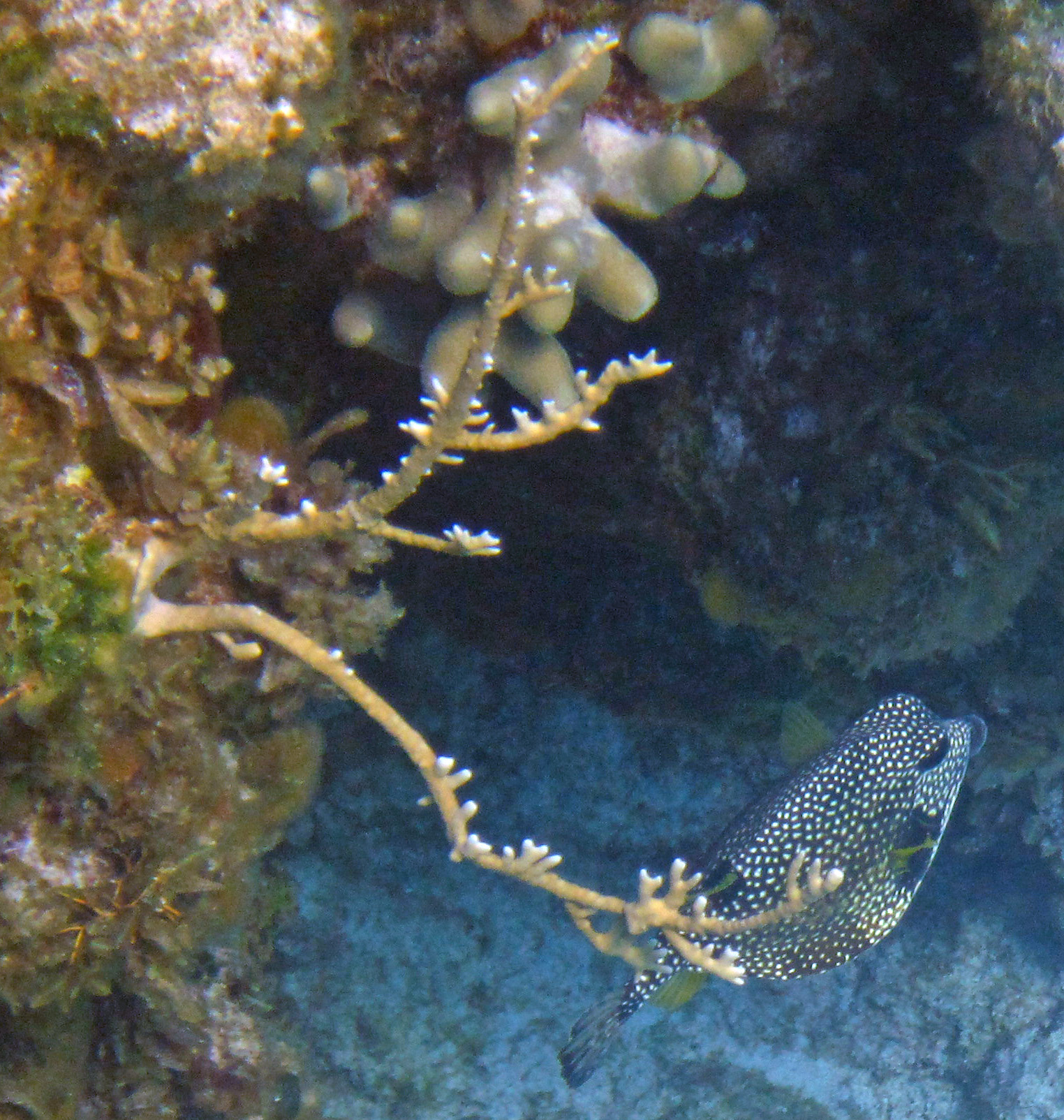 Millepora alcicornis Linnaeus, 1758 - branching fire corals in a patch reef. The tan-colored structures are calcareous skeletons of colonies of hydrozoan polyps. They are not true stony corals - fire corals are hydrozoans while true stony corals are anthozoans. Nematocysts in the tentacles of the small polyps deliver a painful sting. The skeleton of Millepora alcicornis has a complexly branching skeleton. Another species, Millepora complanata, also occurs in patch reefs around San Salvador Island - it's skeleton has a wrinkled bladed form. The overall skeletal shape of Millepora alcicornis is often a consequence of the fire coral encrusting octocoral skeletons. The spotted fish in the lower right corner is Lactophrys triqueter (smooth trunkfish). Classification: Animalia, Cnidaria, Hydrozoa, Milleporidae Locality: Snapshot Reef, Fernandez Bay, offshore from the western shoreline of San Salvador Island, eastern Bahamas